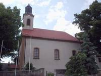 The Church in Nagykovácsi Author: artdesigns2006